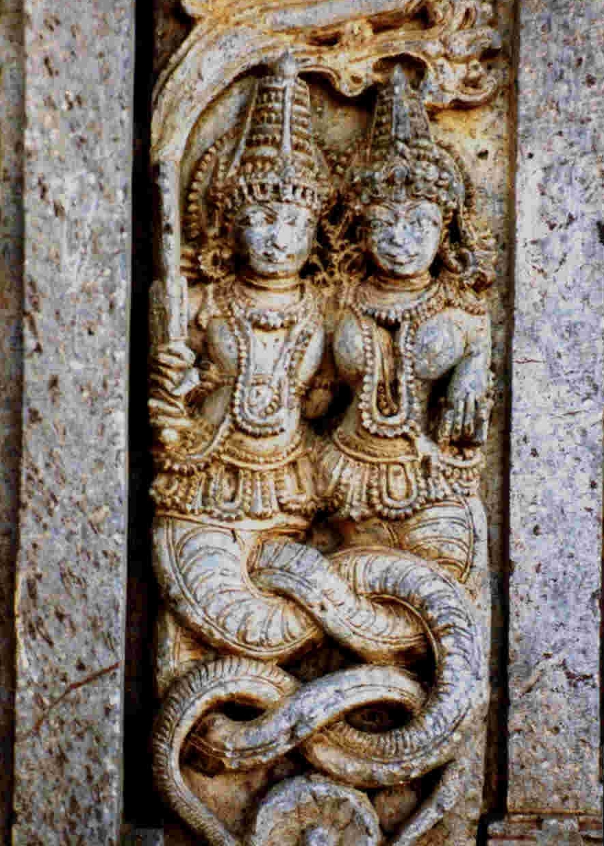 Naga and Nagini, Bhuvanesvar, India